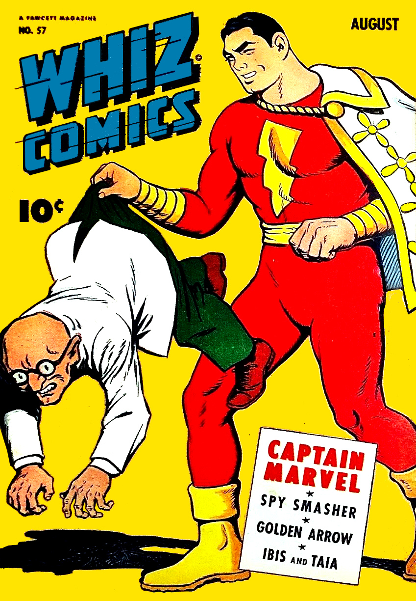 Captain Marvel and Doctor Sivana on the cover of Whiz Comics number 57 (August 1944). As the Marvel Family's worst enemy, Thaddeus Bodog Sivana was often referred to as the "World's Wickedest Scientist" (Heh! Heh! Heh!).